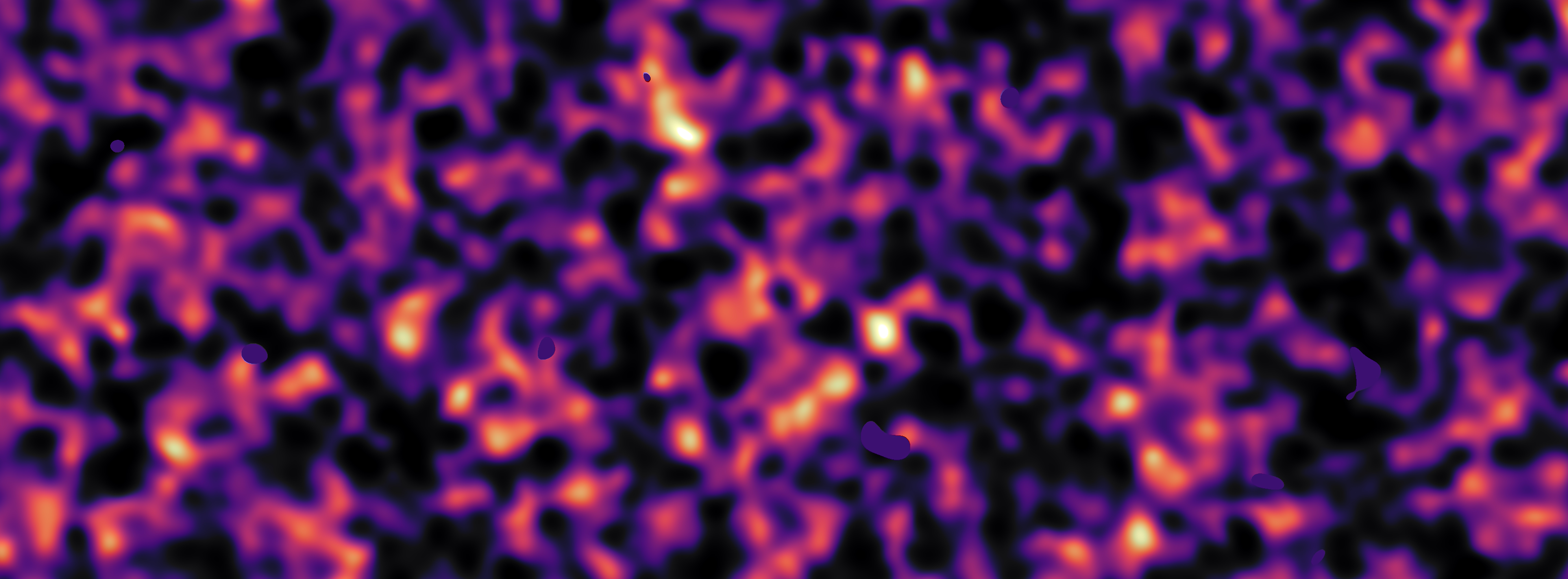 This map of dark matter in the Universe was obtained from data from the KiDS survey, using the VLT Survey Telescope at ESO’s Paranal Observatory in Chile. It reveals an expansive web of dense (light) and empty (dark) regions. This image is one out of five patches of the sky observed by KiDS. Here the invisible dark matter is seen rendered in pink, covering an area of sky around 420 times the size of the full moon. This image reconstruction was made by analysing the light collected from over three million distant galaxies more than 6 billion light-years away. The observed galaxy images were warped by the gravitational pull of dark matter as the light travelled through the Universe. Some small dark regions, with sharp boundaries, appear in this image. They are the locations of bright stars and other nearby objects that get in the way of the observations of more distant galaxies and are hence masked out in these maps as no weak-lensing signal can be measured in these areas.